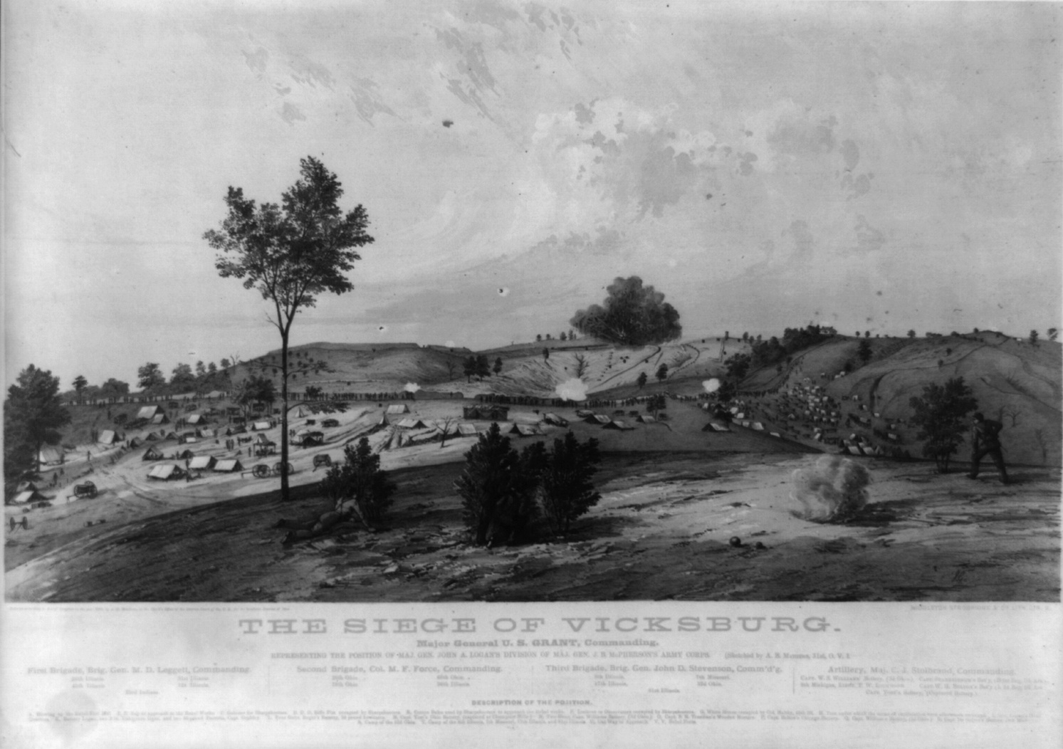 The siege of Vicksburg - representing the position of Maj. Gen. John A. Logan's division.